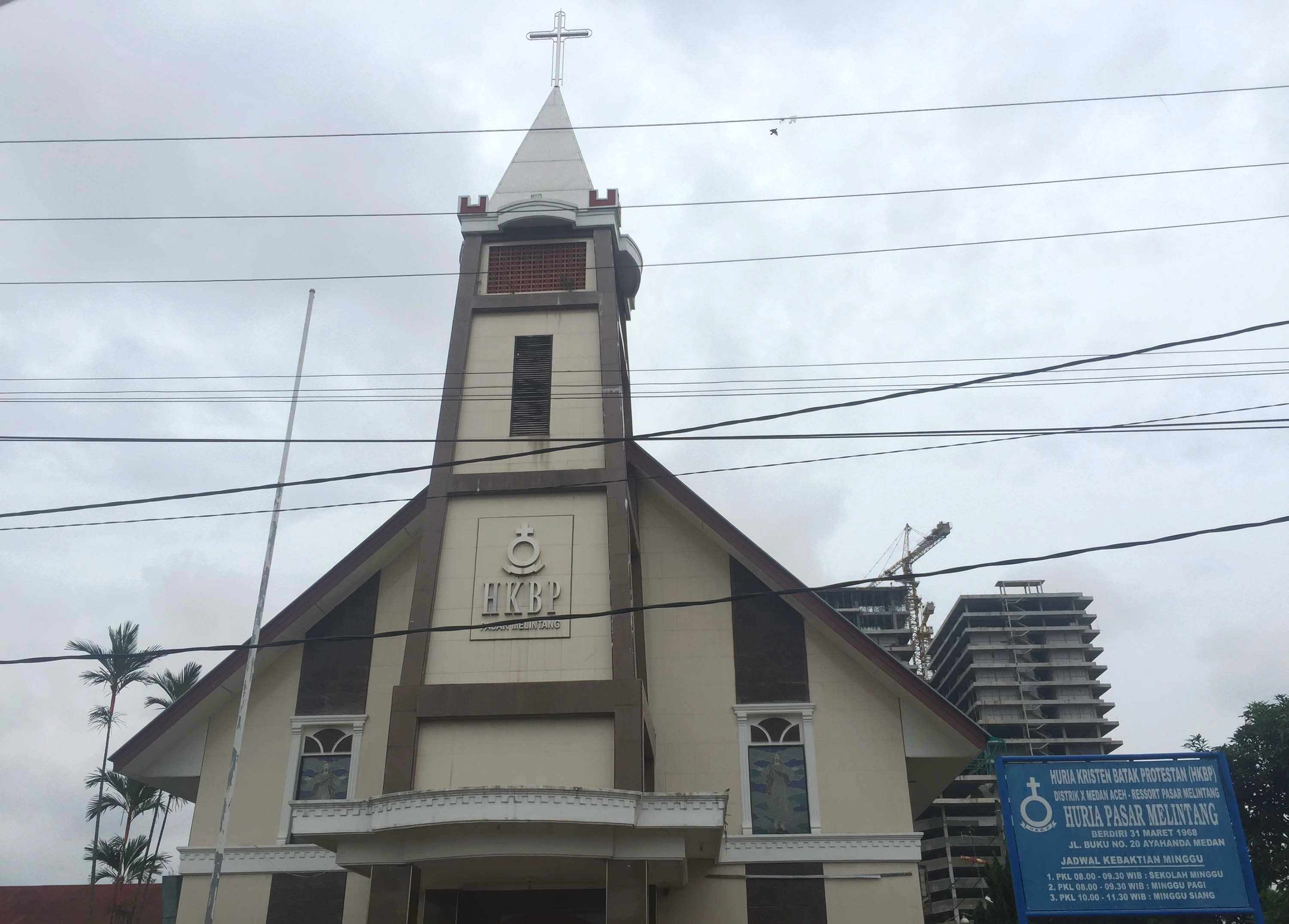 HKBP Pasar Melintang, Res. Pasar Melintang Church in Sei Putih Barat, Medan Petisah, Medan